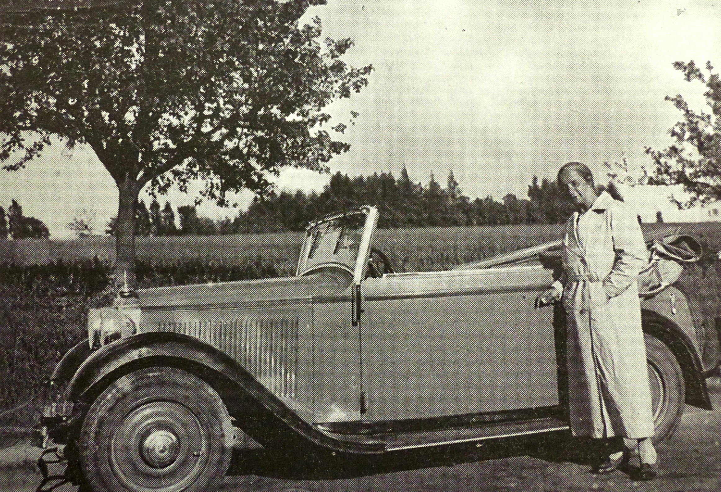 Jetta Bamberger (1891–1978), widow of Otto Bamberger (1885–1933) with her green Mercedes-Benz 170 Cabriolet (W15) C in 1935.